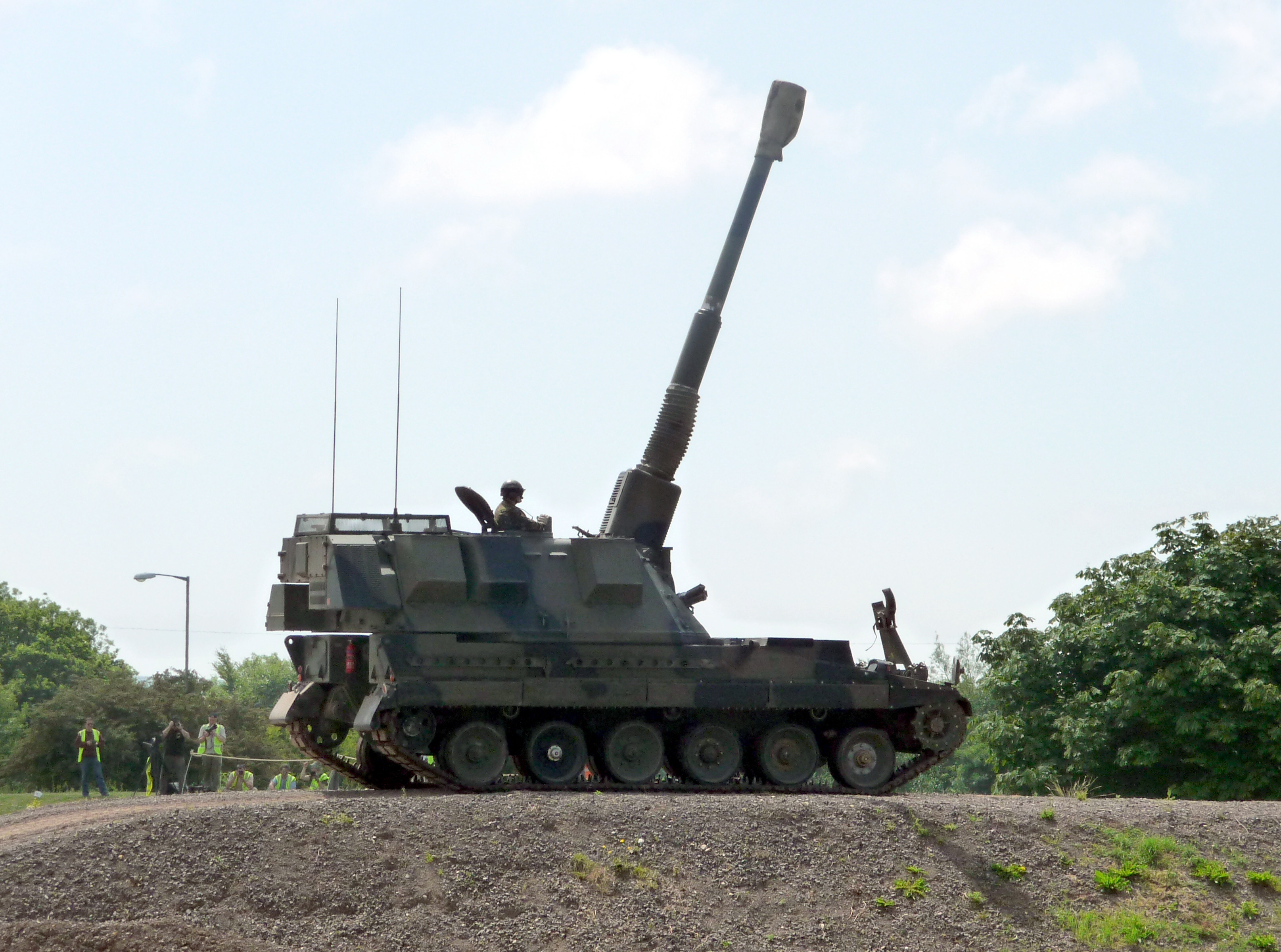 AS90 Self Propelled Gun at Tankfest 2009.